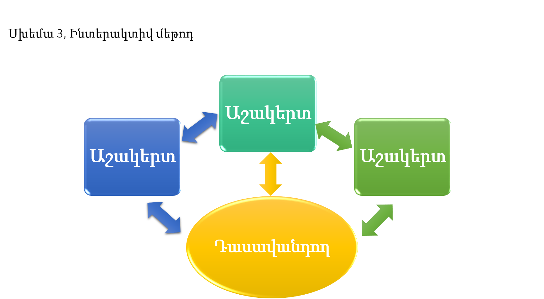 Интерактивный метод обучения